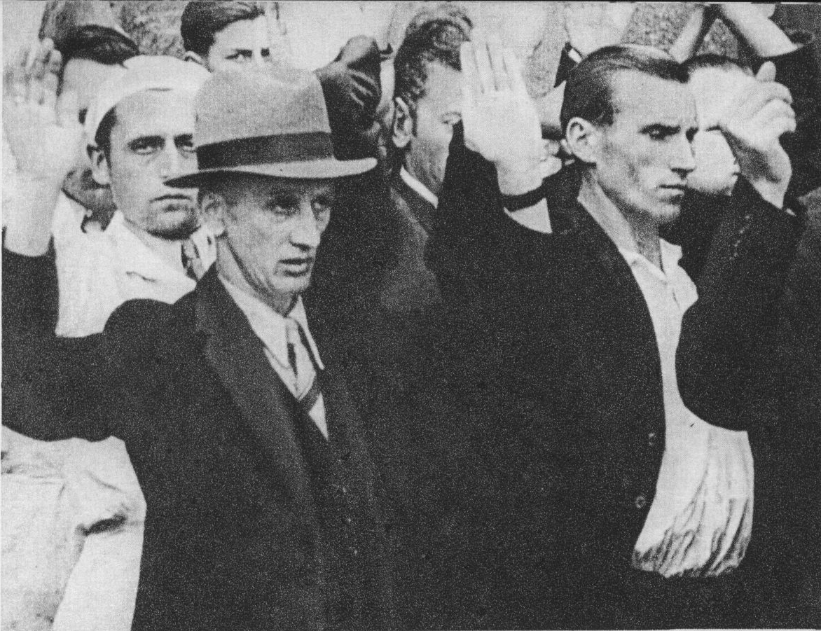 Bydgoszcz on 8th September 1939 – first days of German occupation. Polish civilians arrested during the “łapanka” and guarded by Wehrmacht soldiers at rallying point at Parkowa Street.